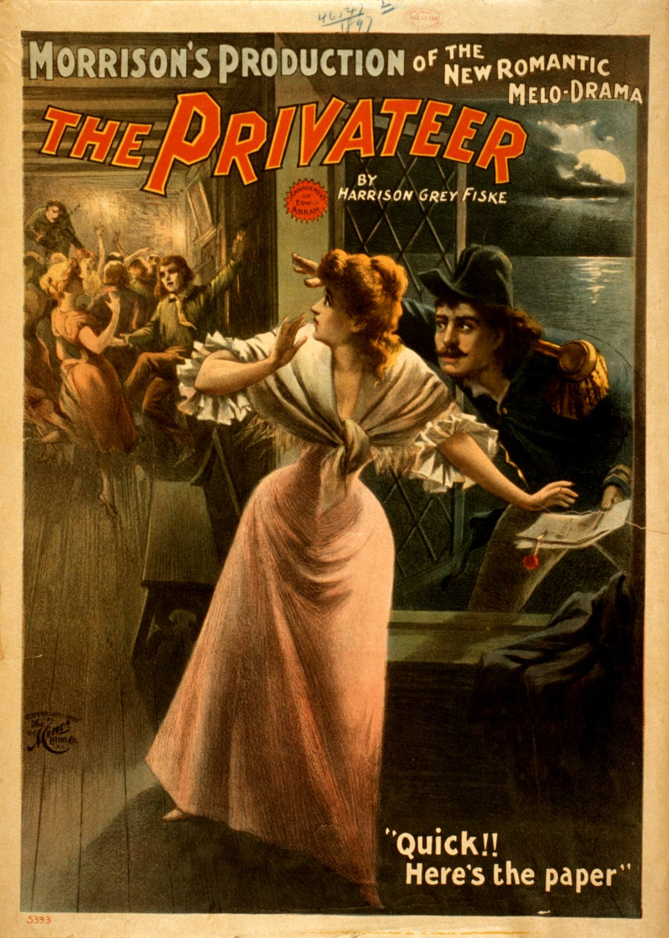 1897 poster for "Morrison's production of the new romantic melo-drama, The Privateer by Harrison Grey Fiske."